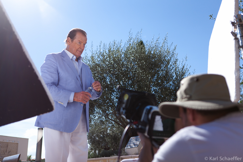 Incompatibles a film directed by Paolo Cedolin Petrini